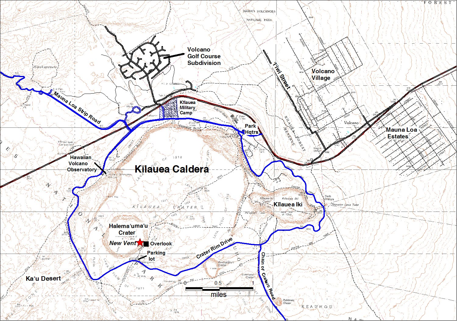 Map of Kilauea Crater as of April 2008.